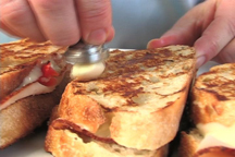 Several Italian grilled panini being rubbed with garlic using a garlicboss